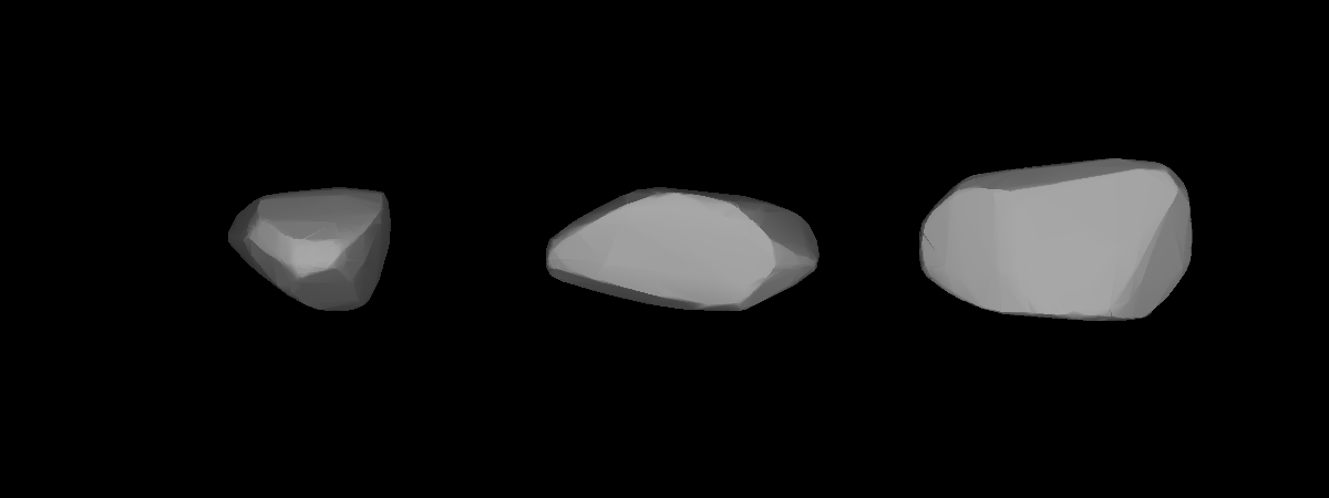 A three-dimensional model of 1126 Otero that was computed using light curve inversion techniques.